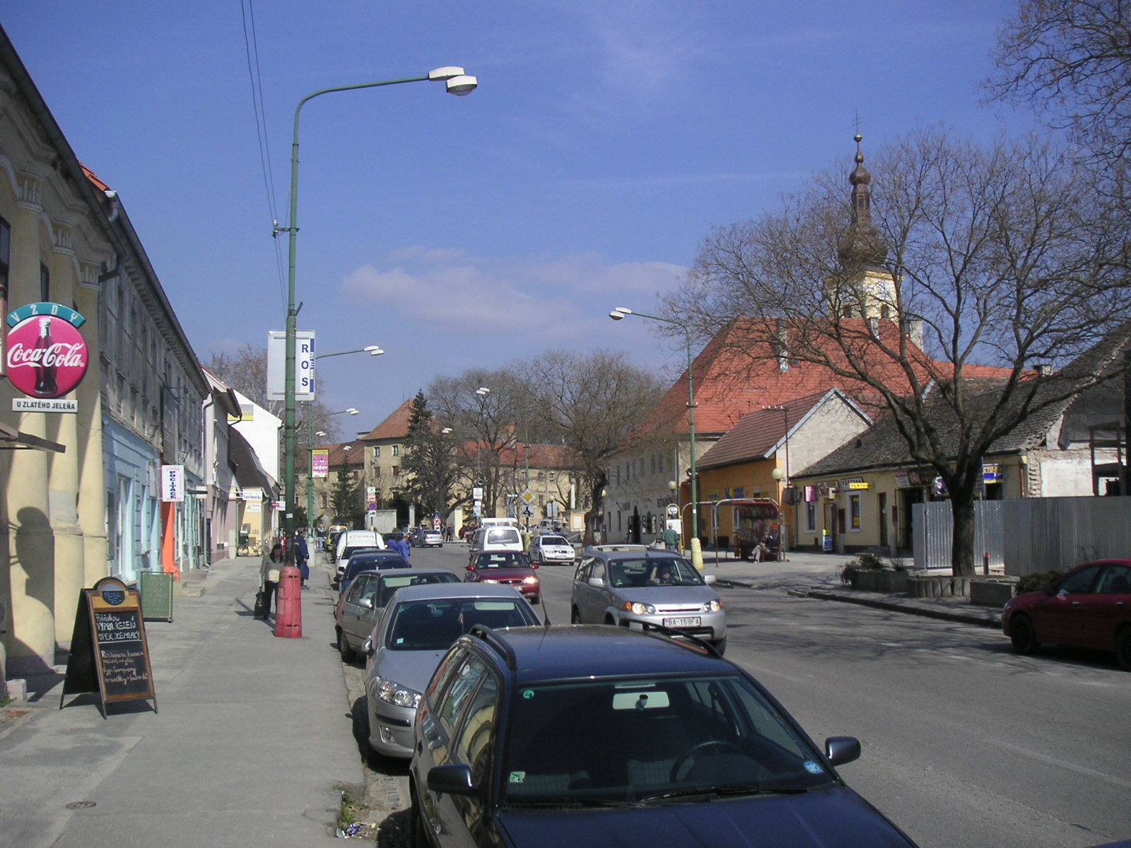 city center in Stupava, Slovakia